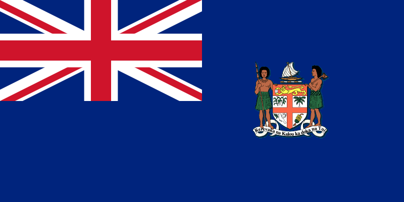 Flag of Colonial Fiji from 1924 to 1970